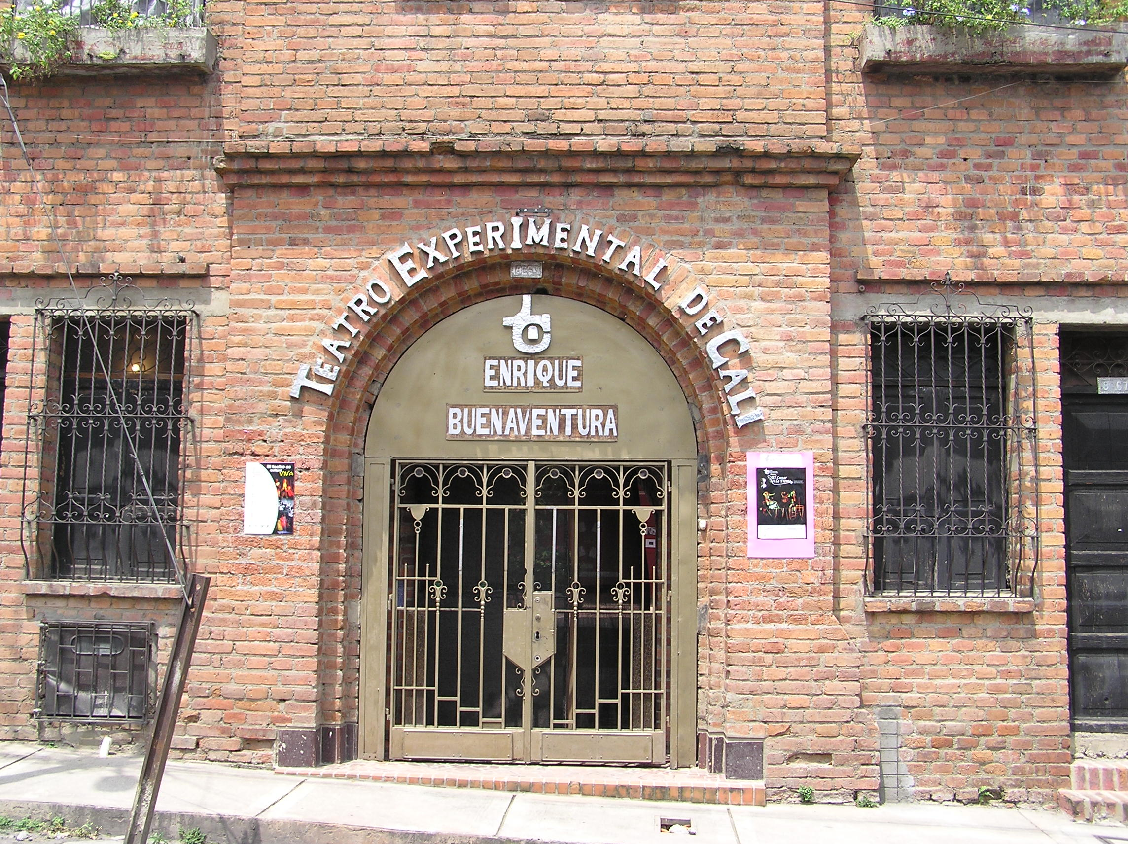 Teatro Experimental de Cali, TEC, Cali Colombia